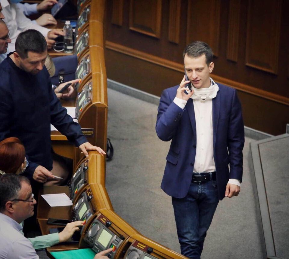 People's Deputy of Ukraine during the work of Parliament